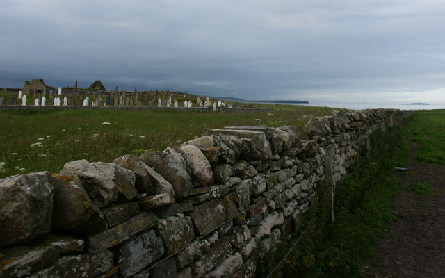 St Lawrence's Church, Burray Dry stone wall field boundary, known locally as a dyke. The church is ruined although the cemetery is regularly in use. I plan on buying a plot here soon and hopefully starting a family tradition. I would prefer it if my wife started it, actually. The islands to the right are Copinsay.